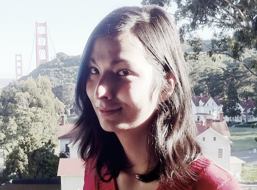 Danielle Fong age 23